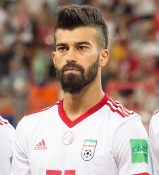 Iran-Portugal match, 2018 FIFA World Cup Group B